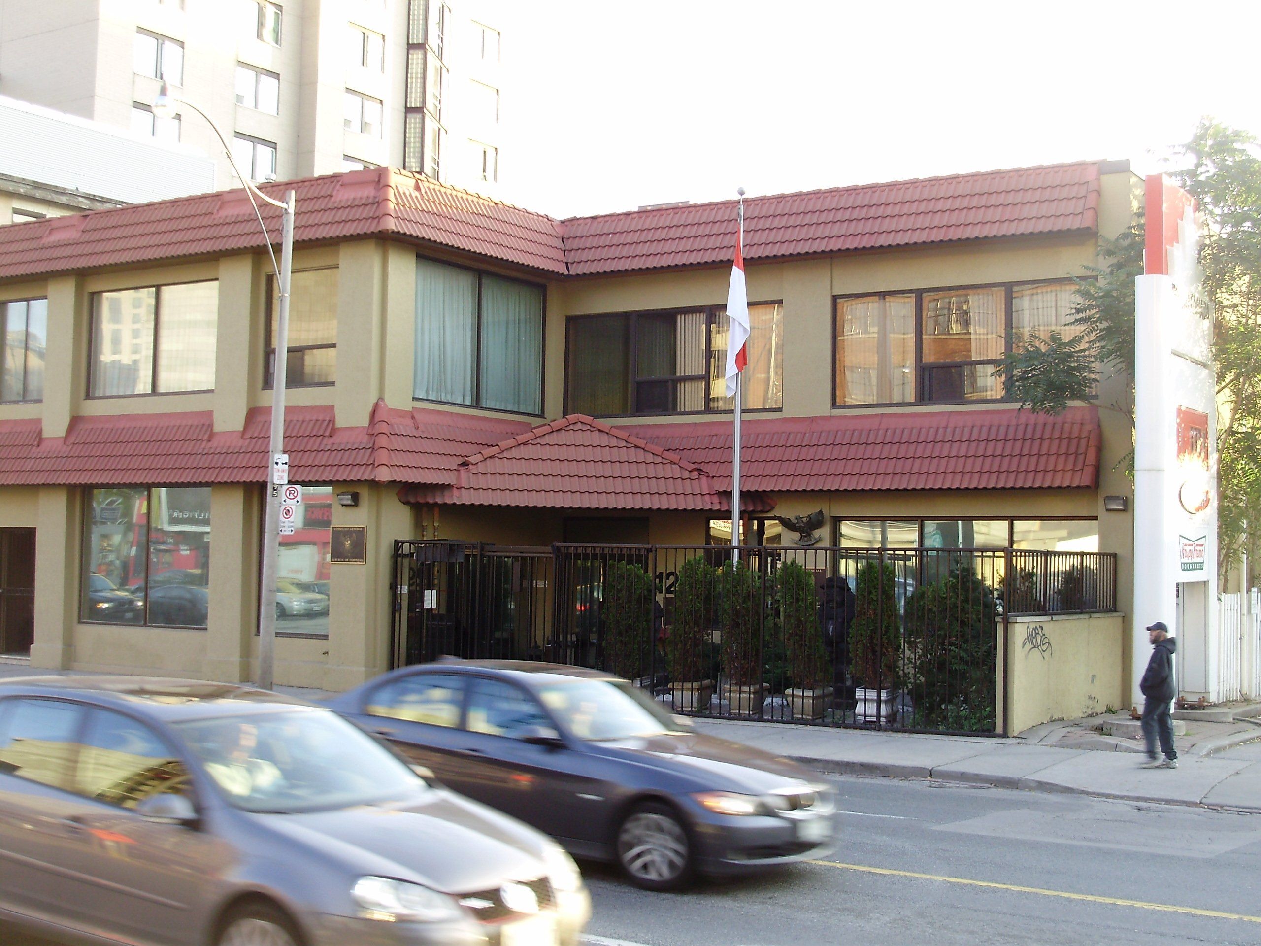 The Consulate General of the Republic of Indonesia in Toronto, Ontario, Canada, on Jarvis Street just north of Richmond Street.